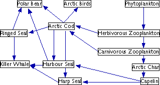 An example of a food web diagram